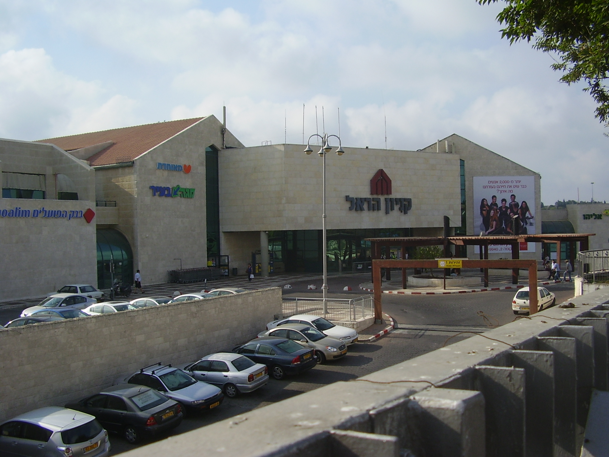 Harel mall in Mevaseret Zion